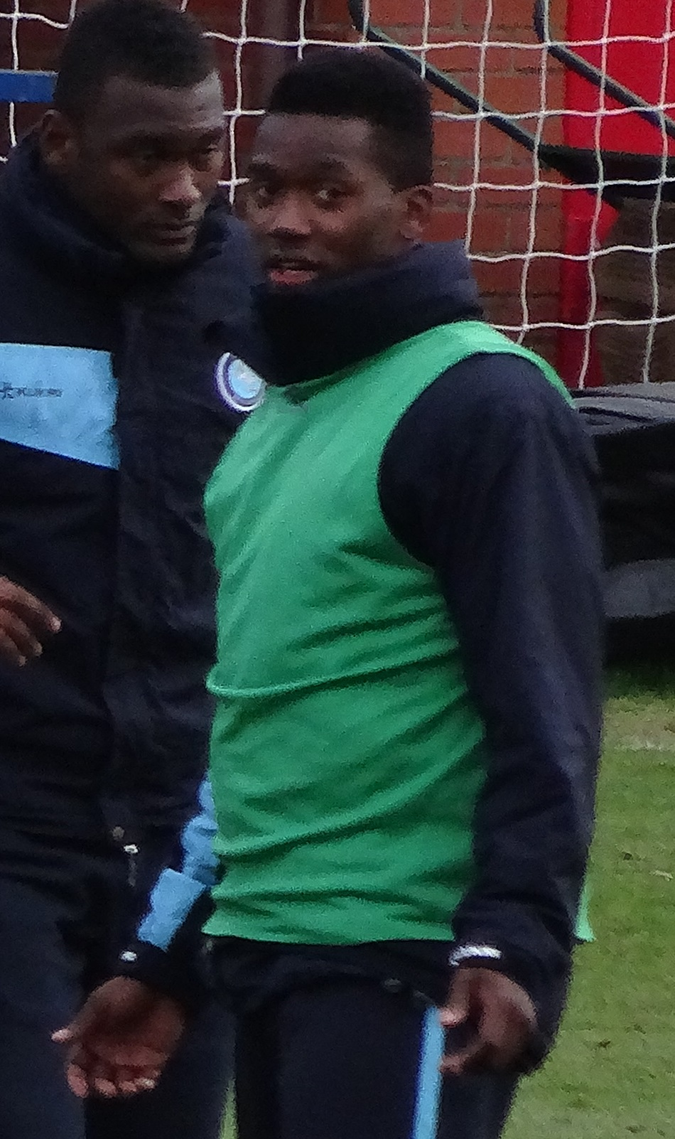 Jon-Paul Pittman.